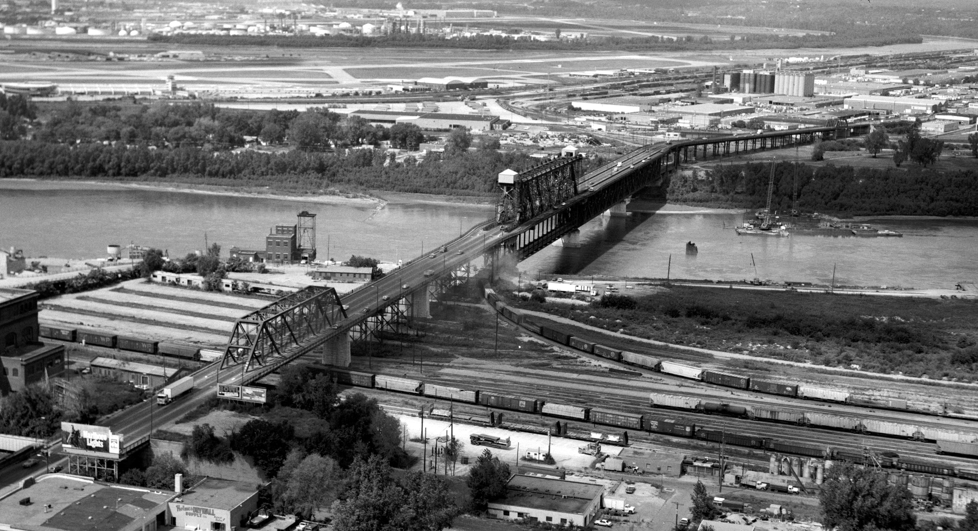 Armour, Swift, Burlington Bridge, Kansas City, Jackson County, MO. View of entire bridge looking Northwest.